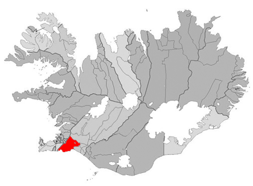 Based on Municipalities of Iceland.png.